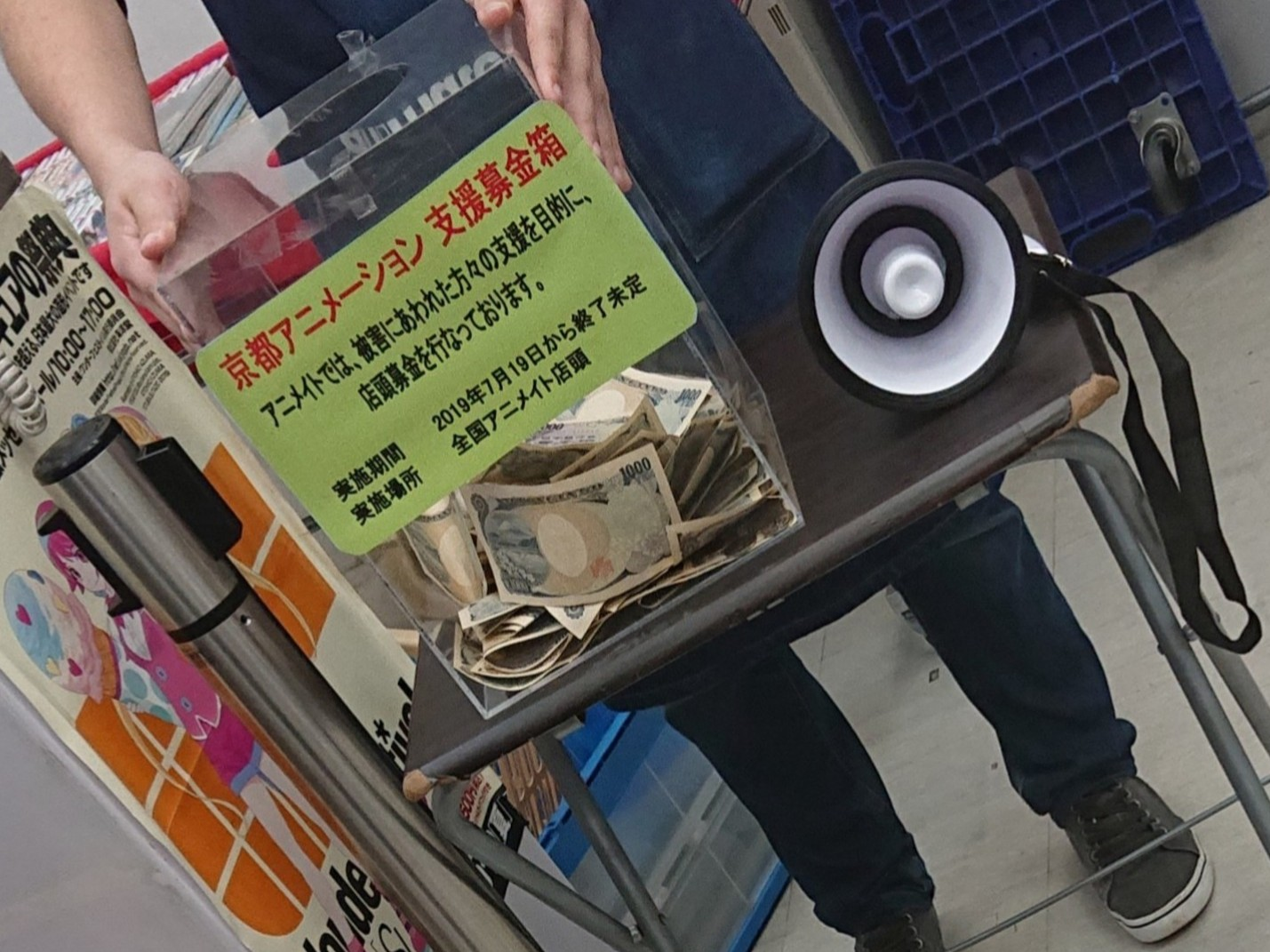 Animate Akihabara, fund-raising for Kyoto Animation